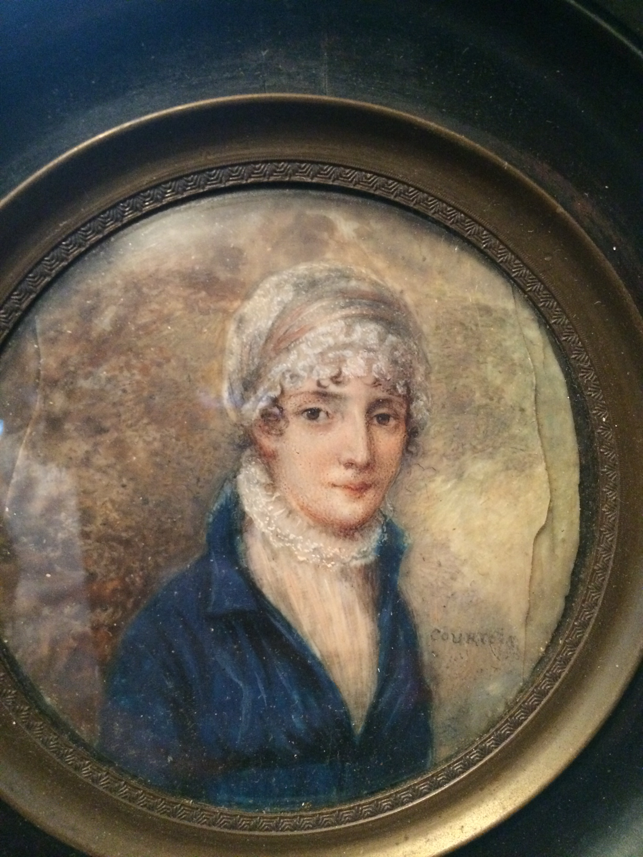 This is a miniature on Ivory signed in the lower right "Courtois".